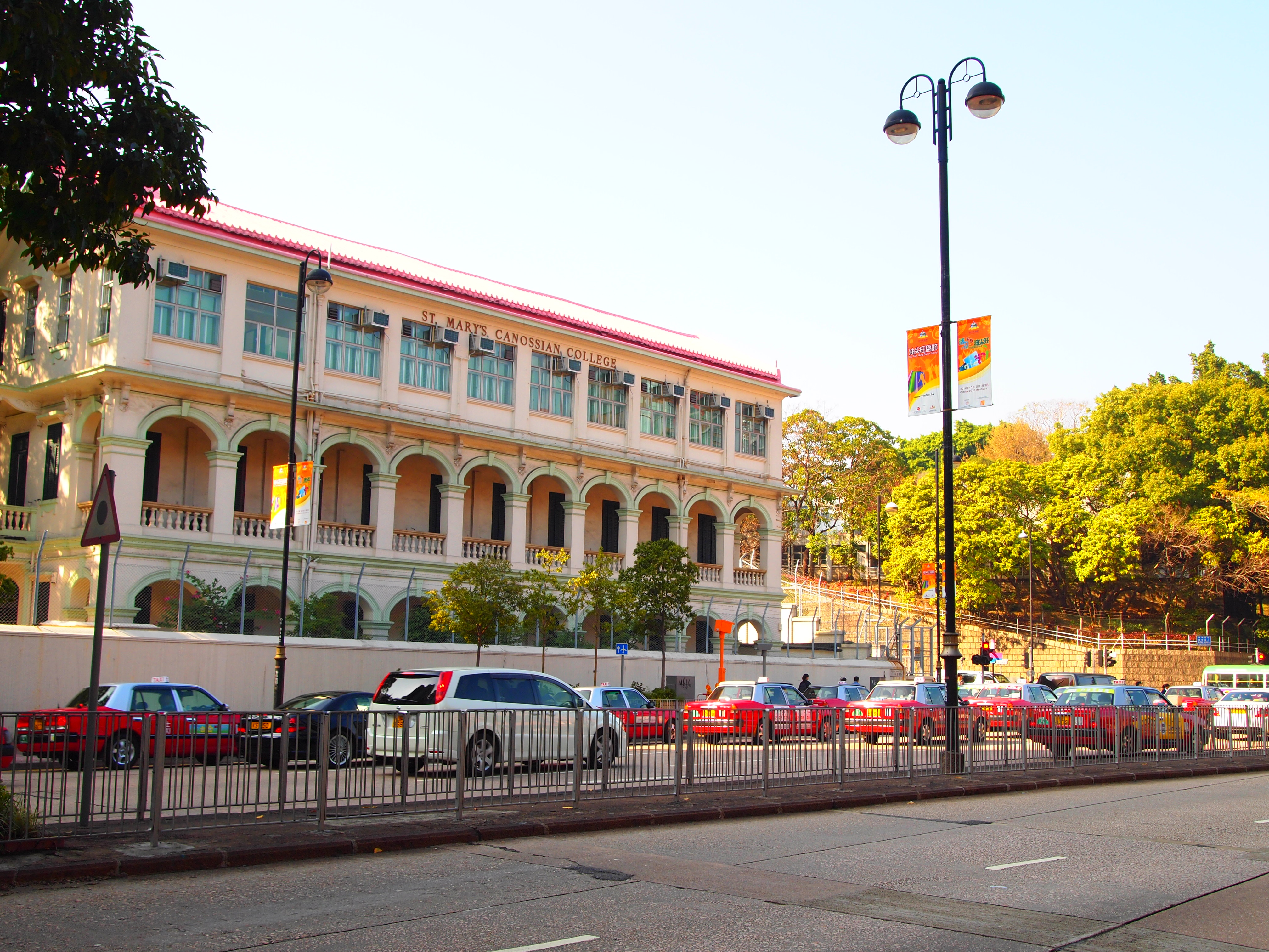 St. Mary's Outlook